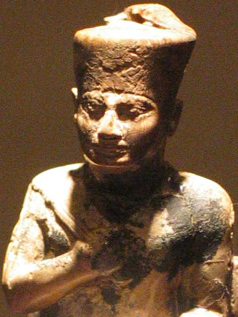 Statue of Khufu in the Cairo Egyptian Museum (JE 36143)